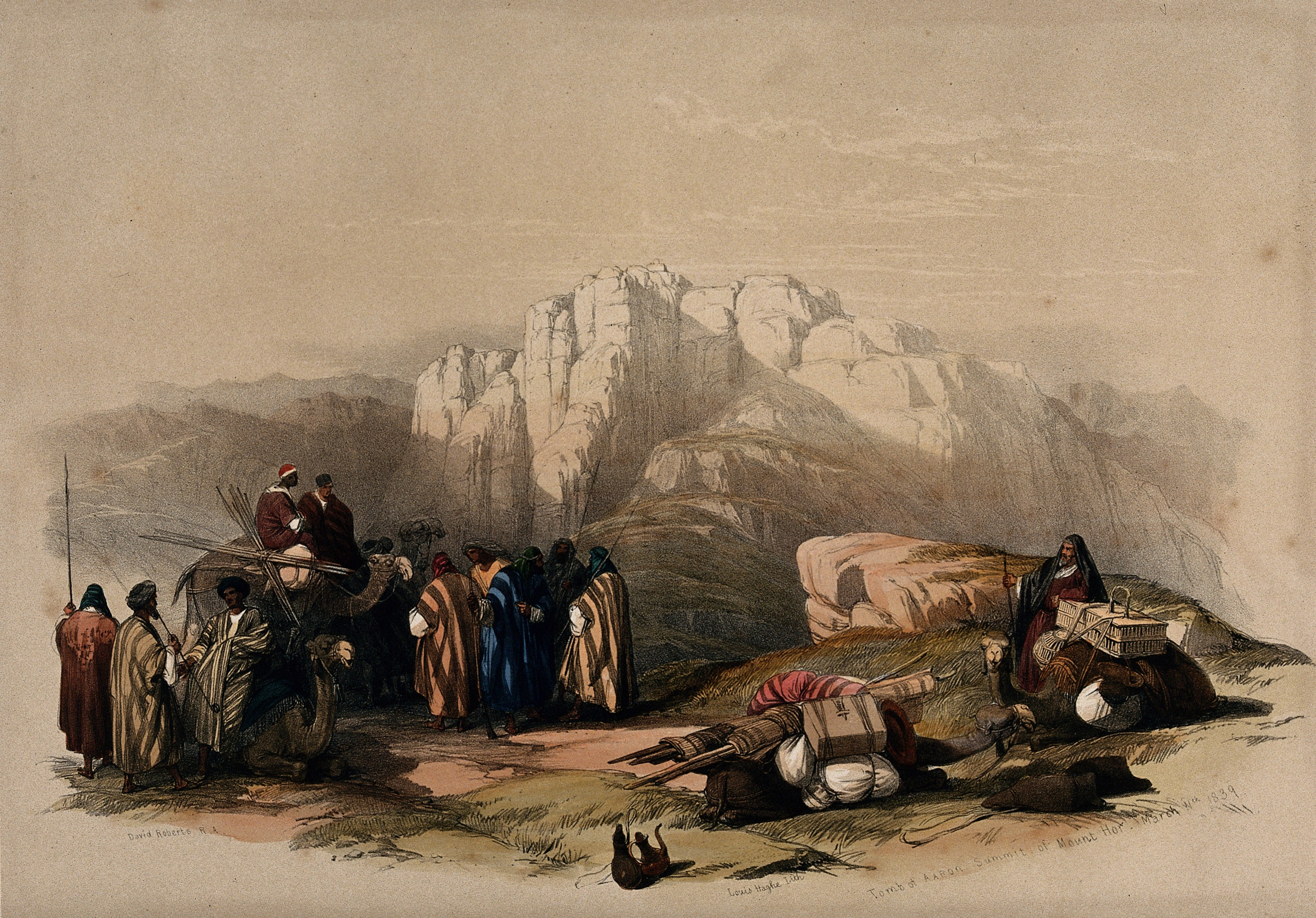 Travellers at the tomb of Aaron, on the summit of Mount Hor, near Petra. Coloured lithograph by Louis Haghe after David Roberts, 1849. Iconographic Collections Keywords: David Roberts; Louis Haghe